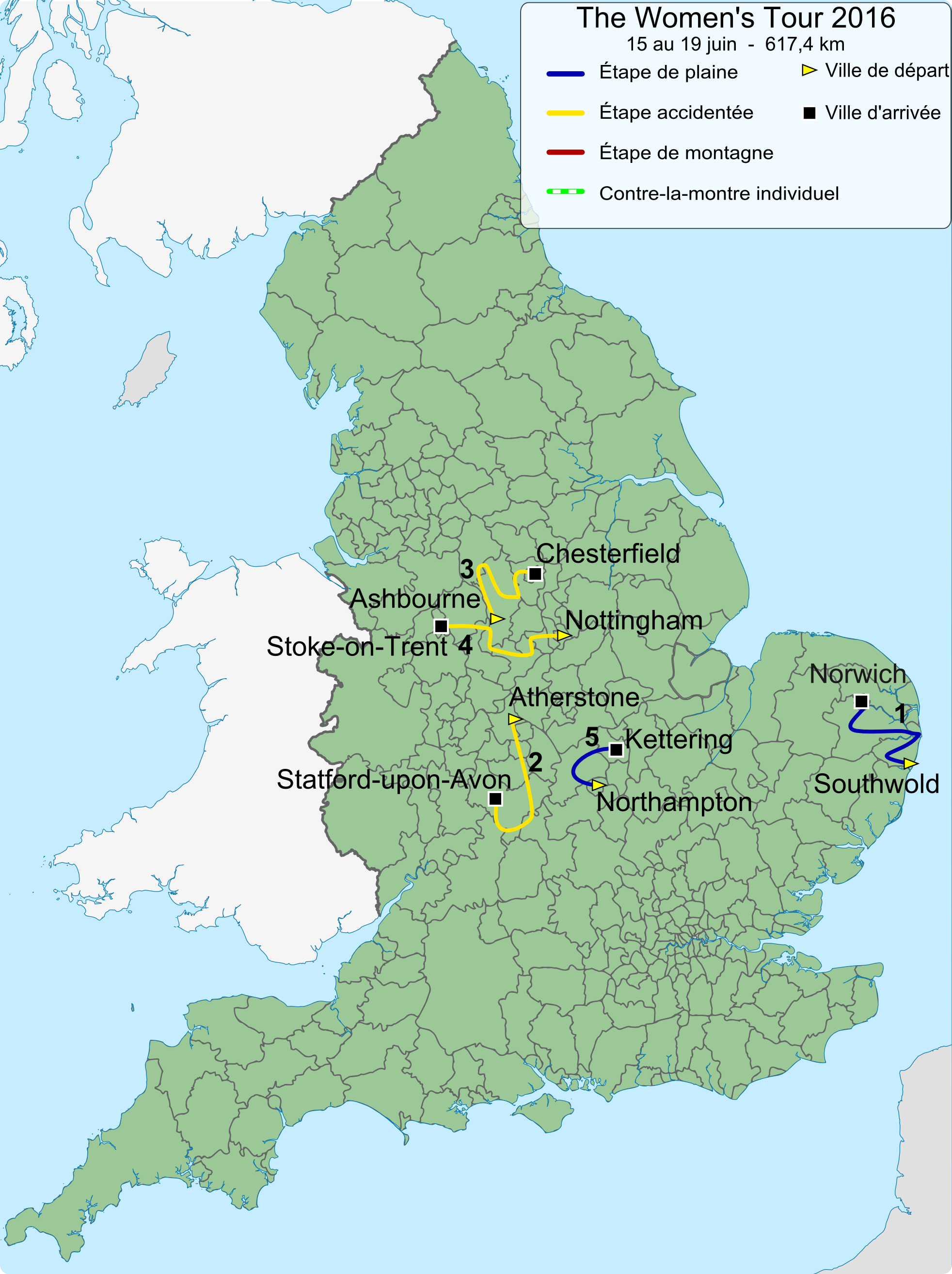 Overview map of the Women's Tour 2016.